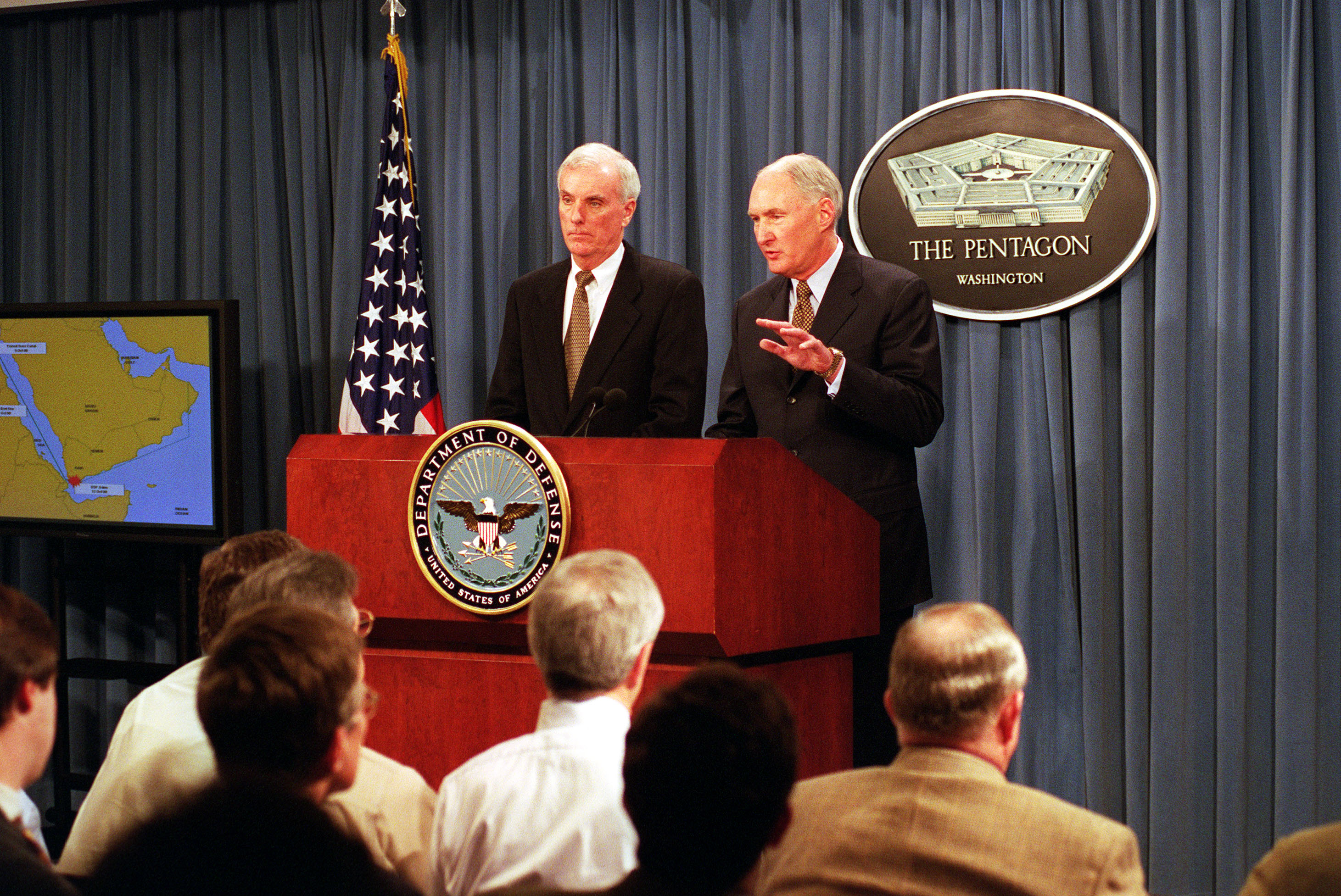 Retired Admiral Harold W. Gehman (left) and retired Army General William W. Crouch brief reporters on the unclassified version of the report of the USS Cole Commission from [1]